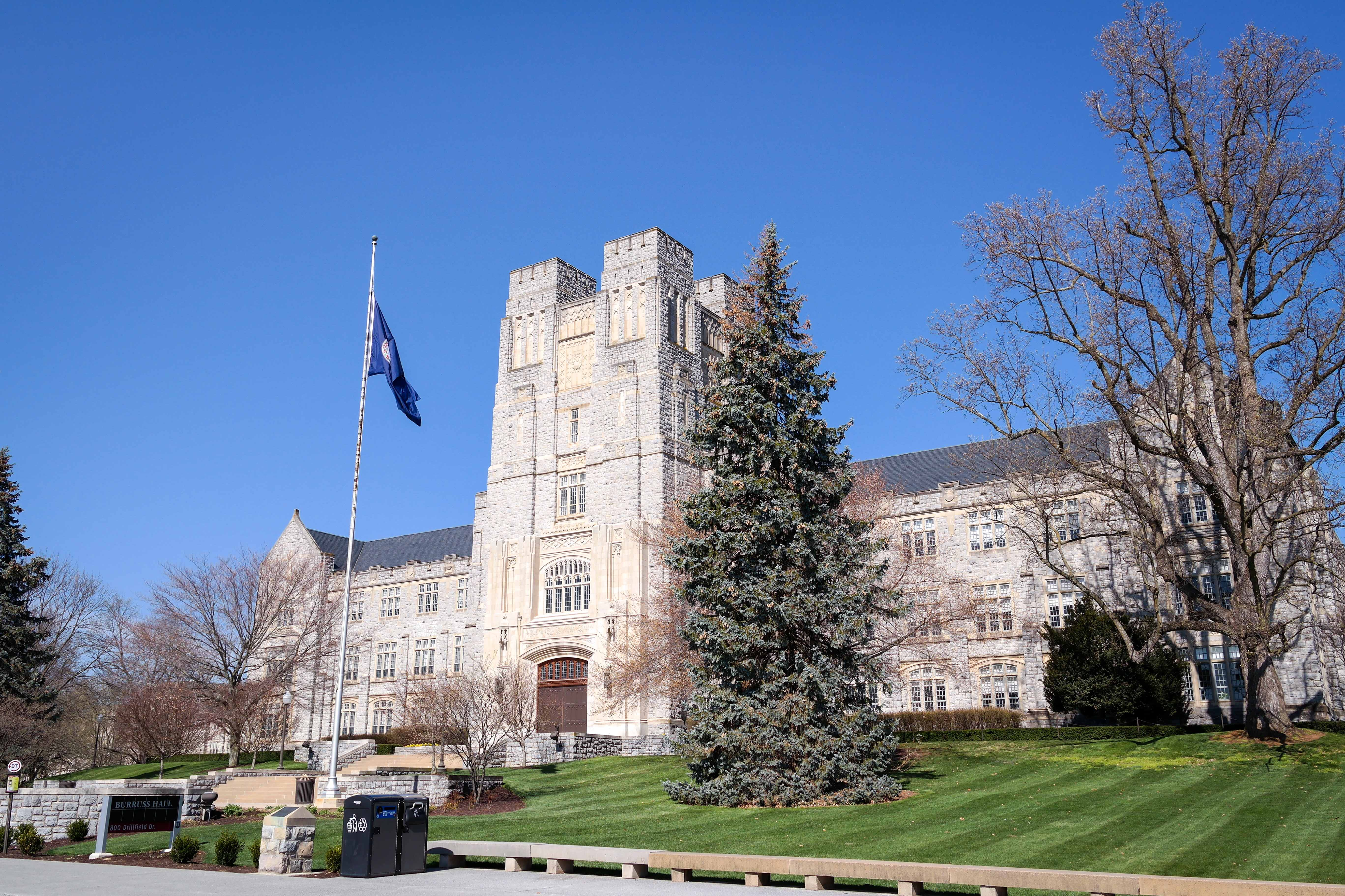 Burruss Hall at Virginia Tech in Blacksburg, Virginia